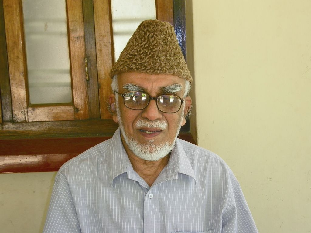 Muttanissery koyakutty